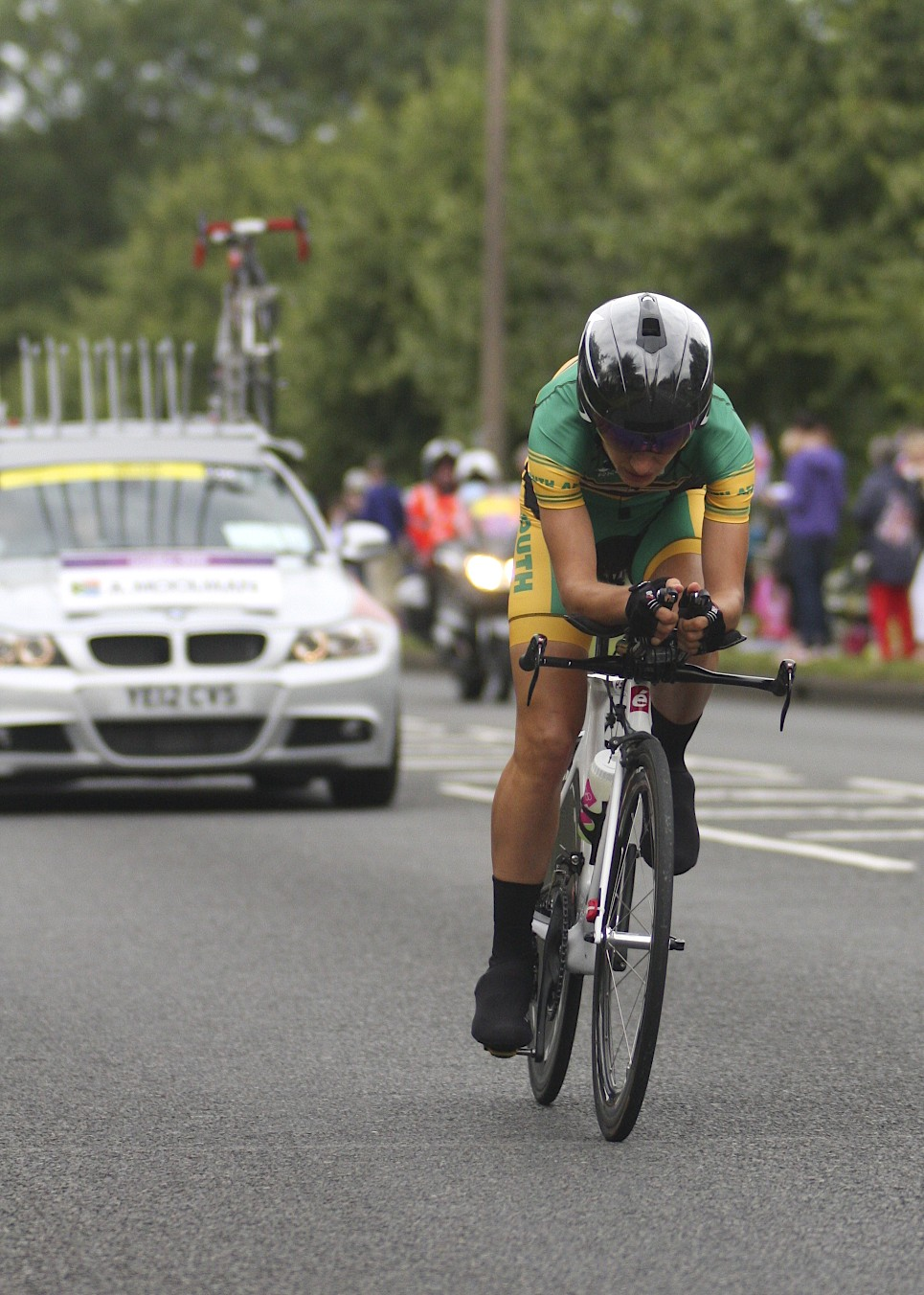 Ashleigh Moolman RSA